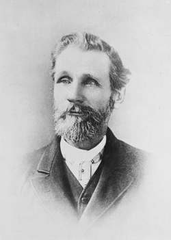 Colonel Jabez Banbury, early settlers of Pasadena Ca., a veteran of the Civil War from 5th Iowa Volunteer Infantry Regiment, and California politician in California State Assembly. Treasurer for Los Angeles county and the first treasurer of Pasadena Ca.